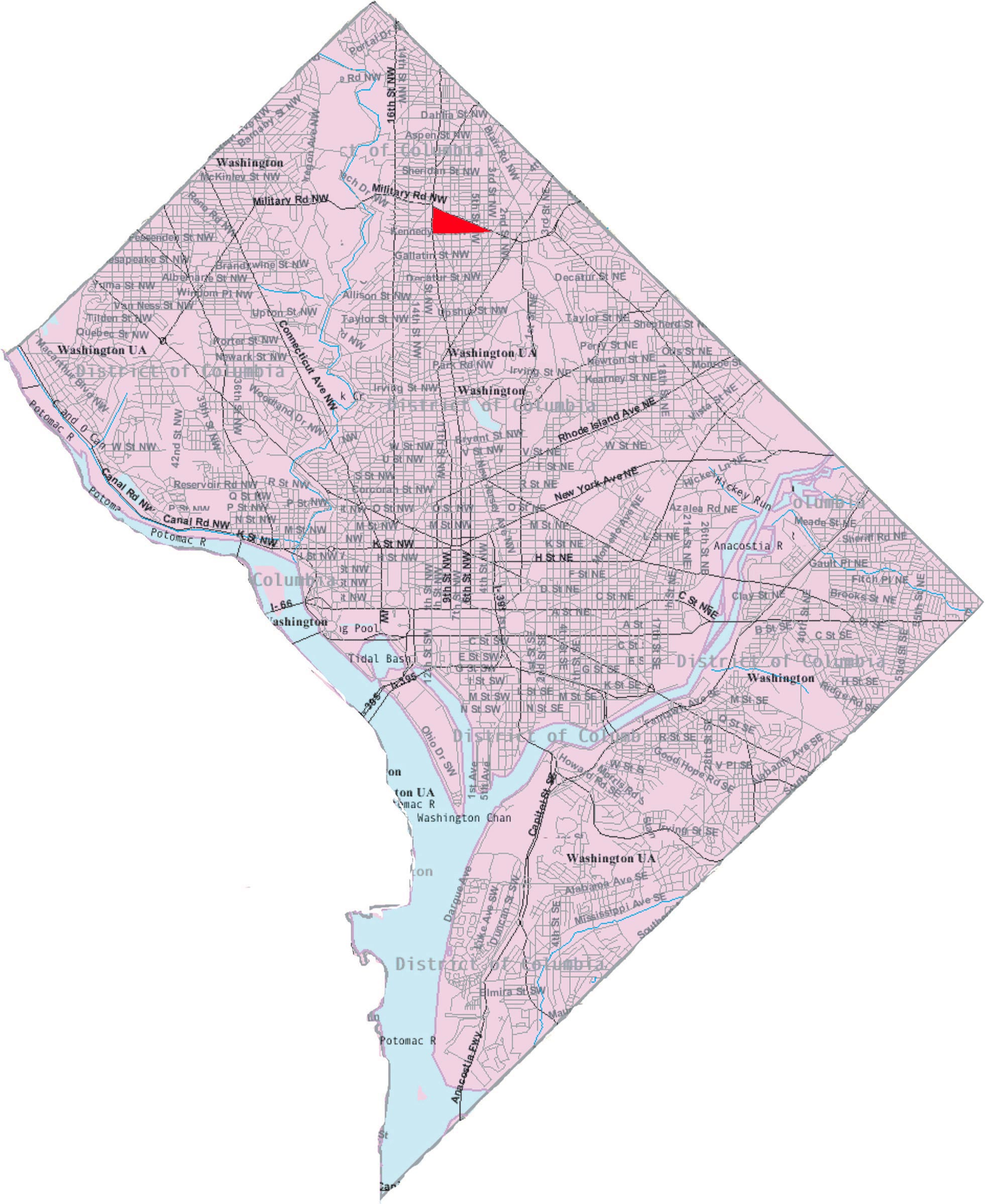 This image is a modified version of a self-generated reference map from the U.S. Census Bureau's American Factfinder at by Wikipedia user Msclguru.